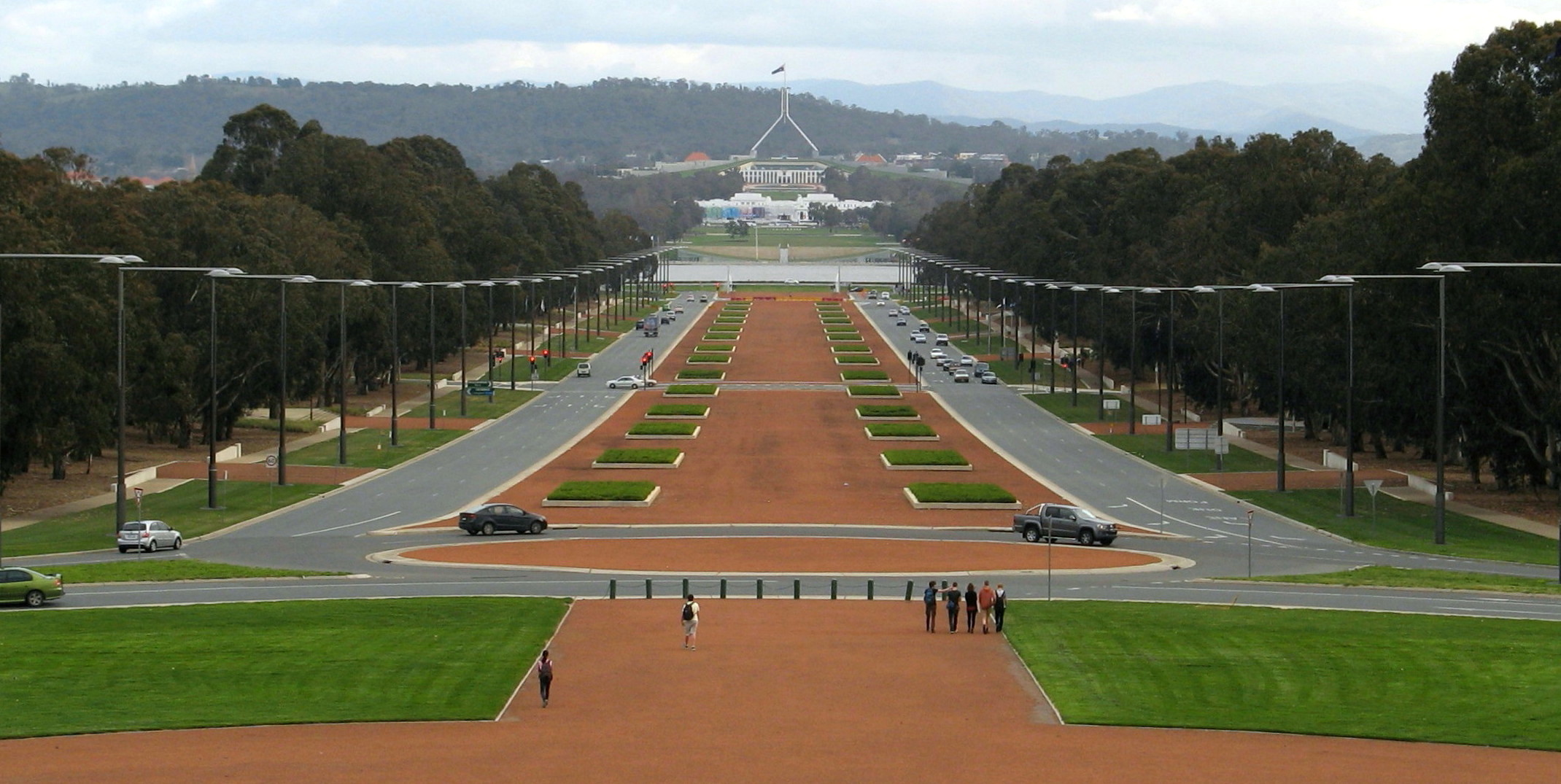 Anzac Parade, looking from the Australian War Memorial toward Parliament House